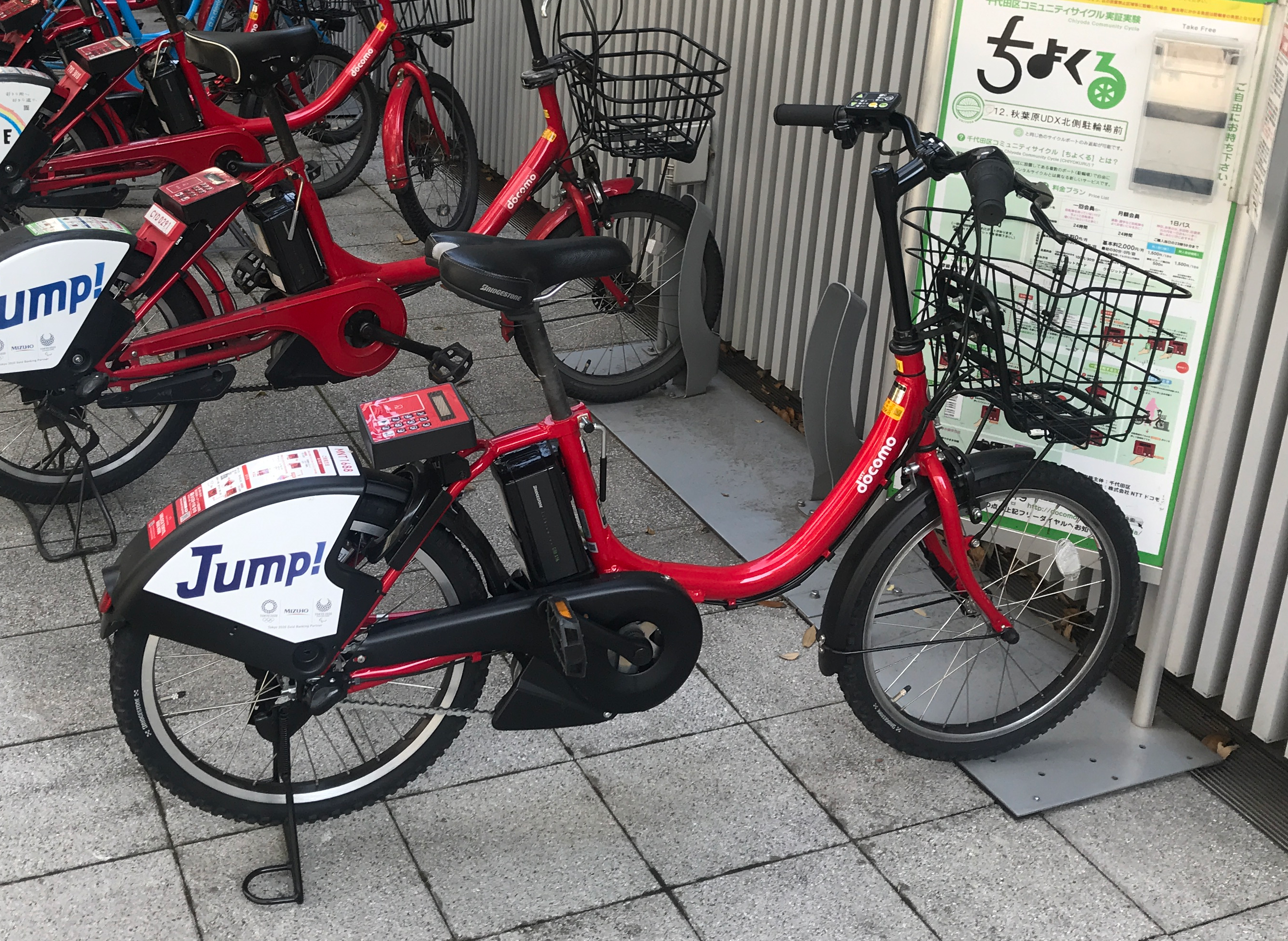 The Community cycle system "Chiyokuru", Akihabara UDX North parking Cycle port.